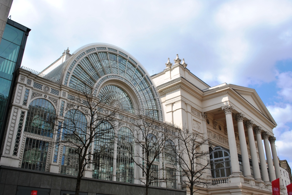 Royal Opera House